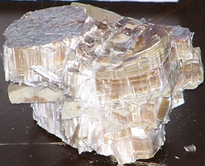 Chrysotile serpentine, Salt River, Arizona. From my personal collection - image made by me.